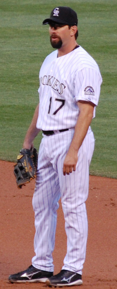 Description Cropped version of File:Toddhelton1.jpg DateJune 1, 2007SourceFile:Toddhelton1.jpgAuthorCropping by Killervogel5 11:57, 19 March 2009 . . Killervogel5 . . 386×950 (146 KB) Cropped version of File:Toddhelton1.jpg